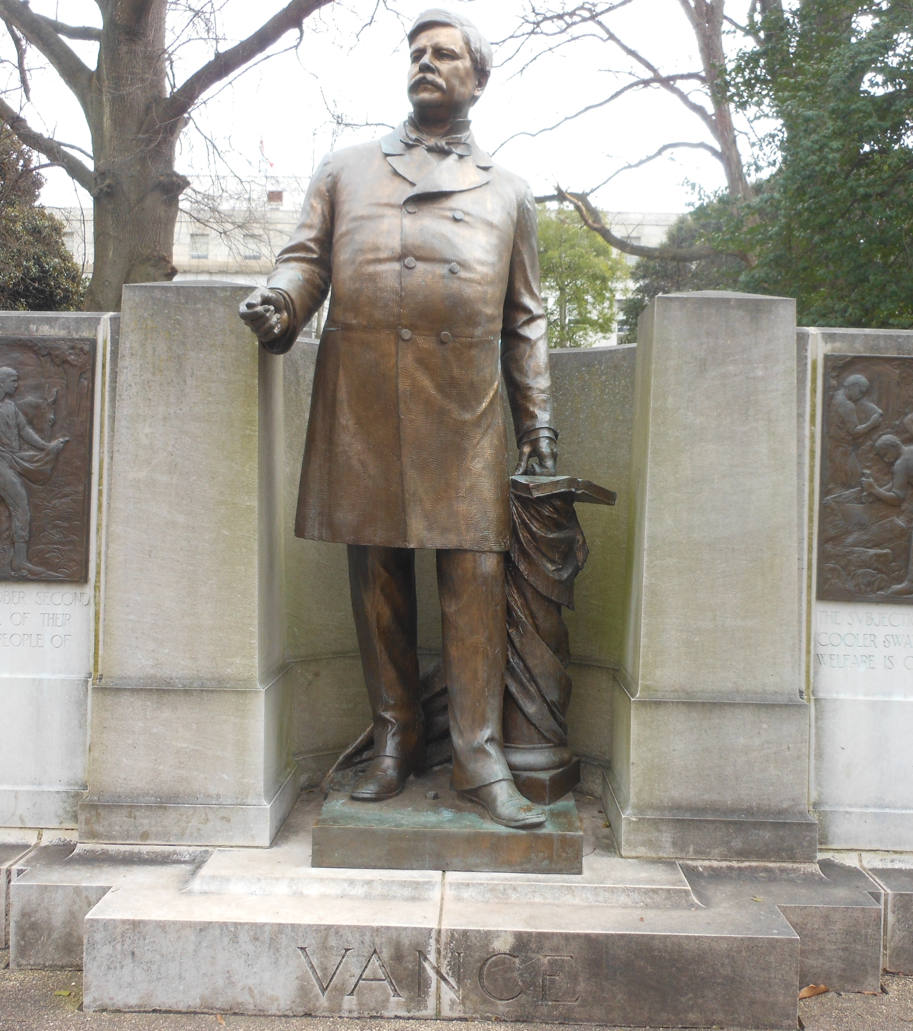 Governor Zebulon Vance Statue in Raleigh, North Carolina